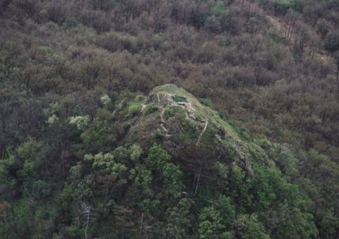 Hegyesd, Hungary, aerialphotography